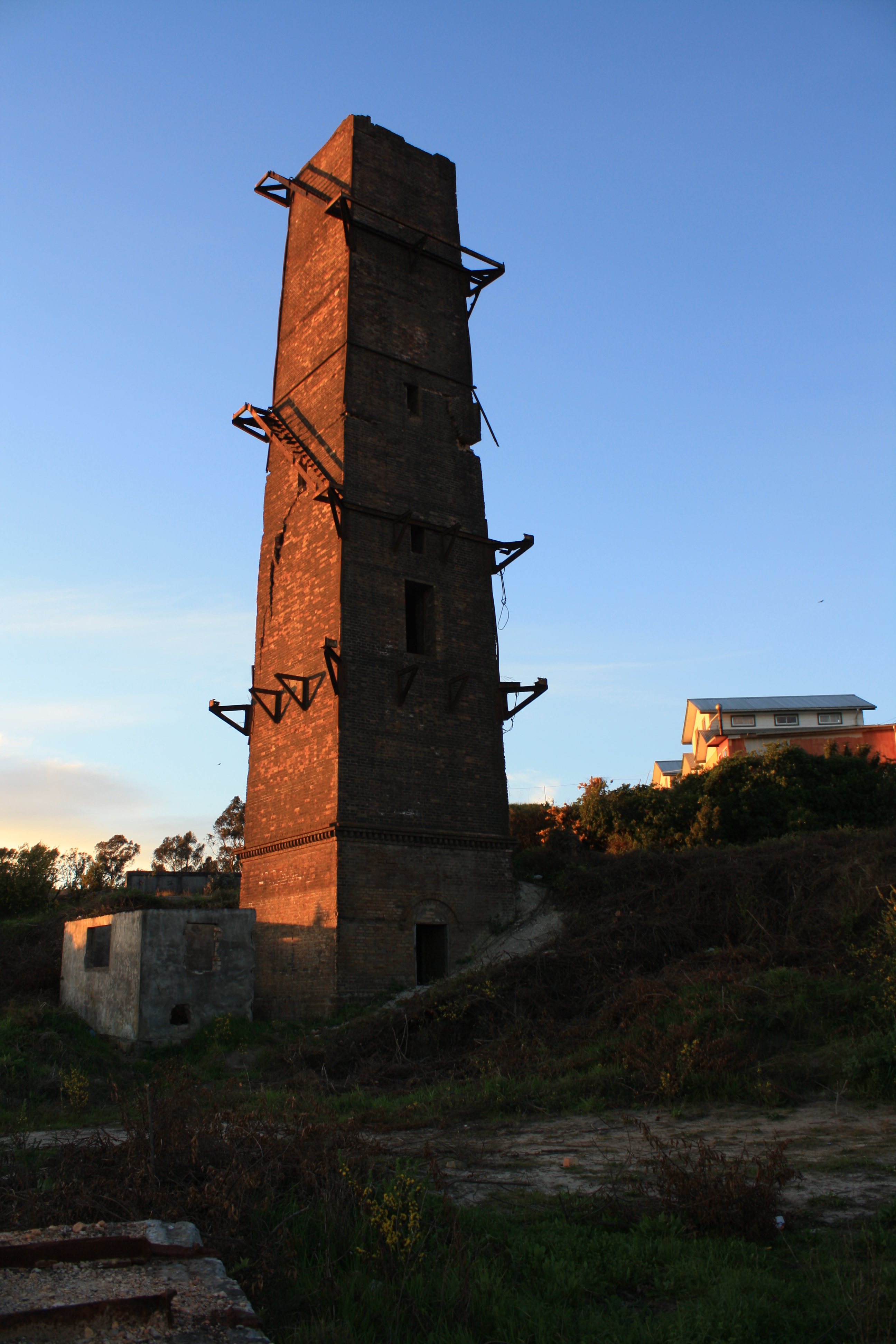 This is a photo of a national monument in Chile: 2171